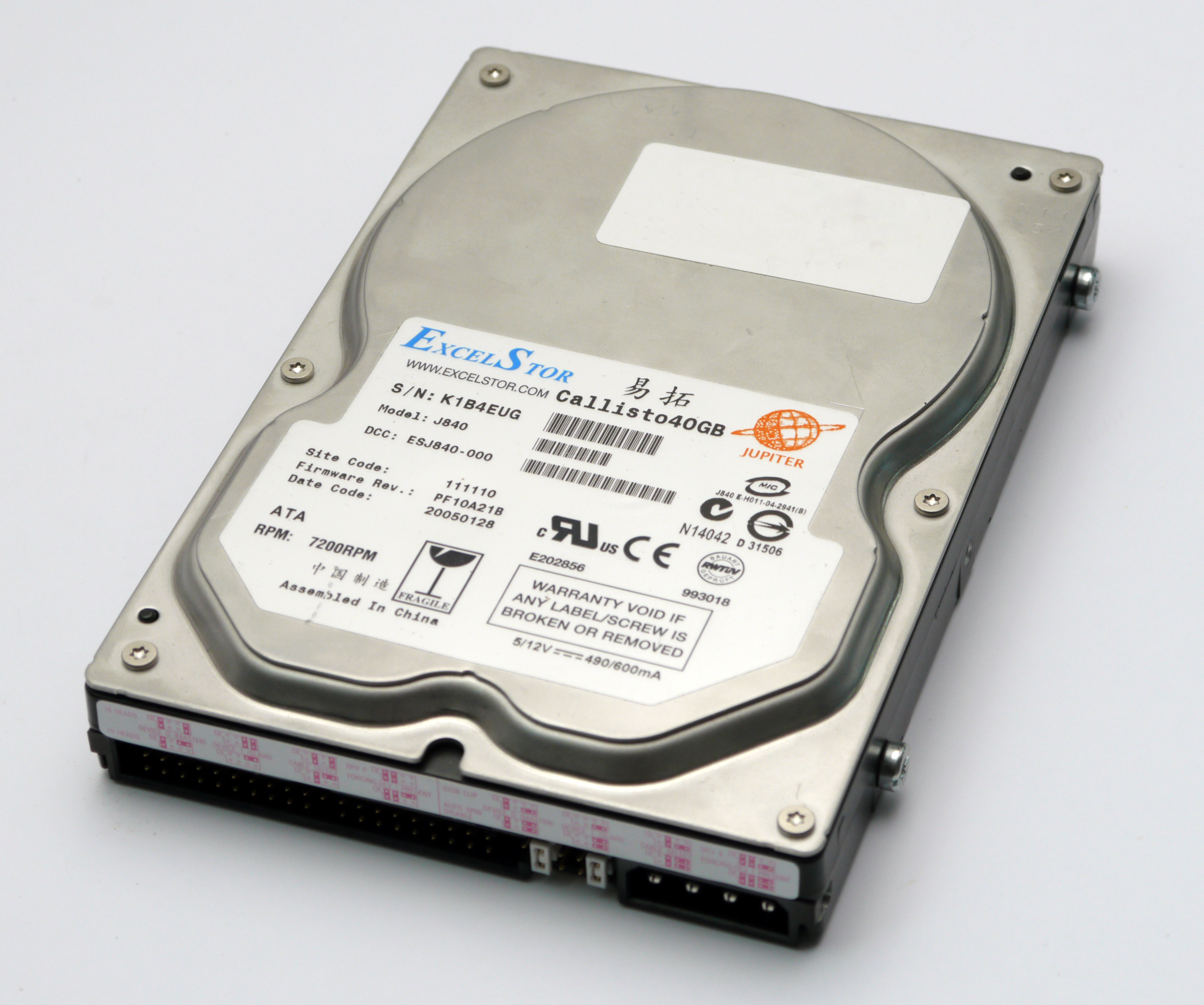 ExcelStor 3.5" IDE hard disk drive J840, 40GB Capacity. Made on January 28, 2005.